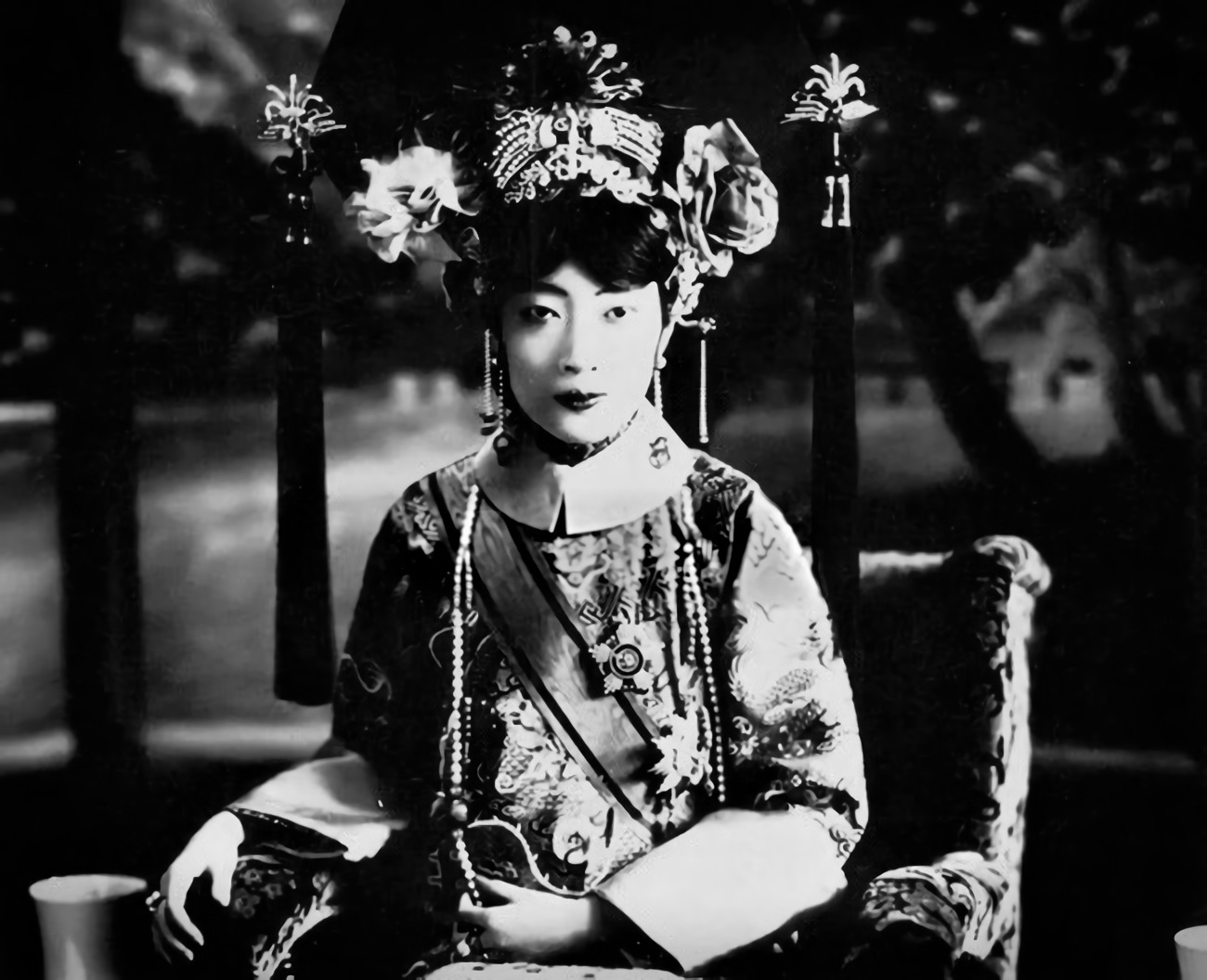 Photograph of the Qing Dynasty Empress Gobele Wan-Rong of XuanTong.